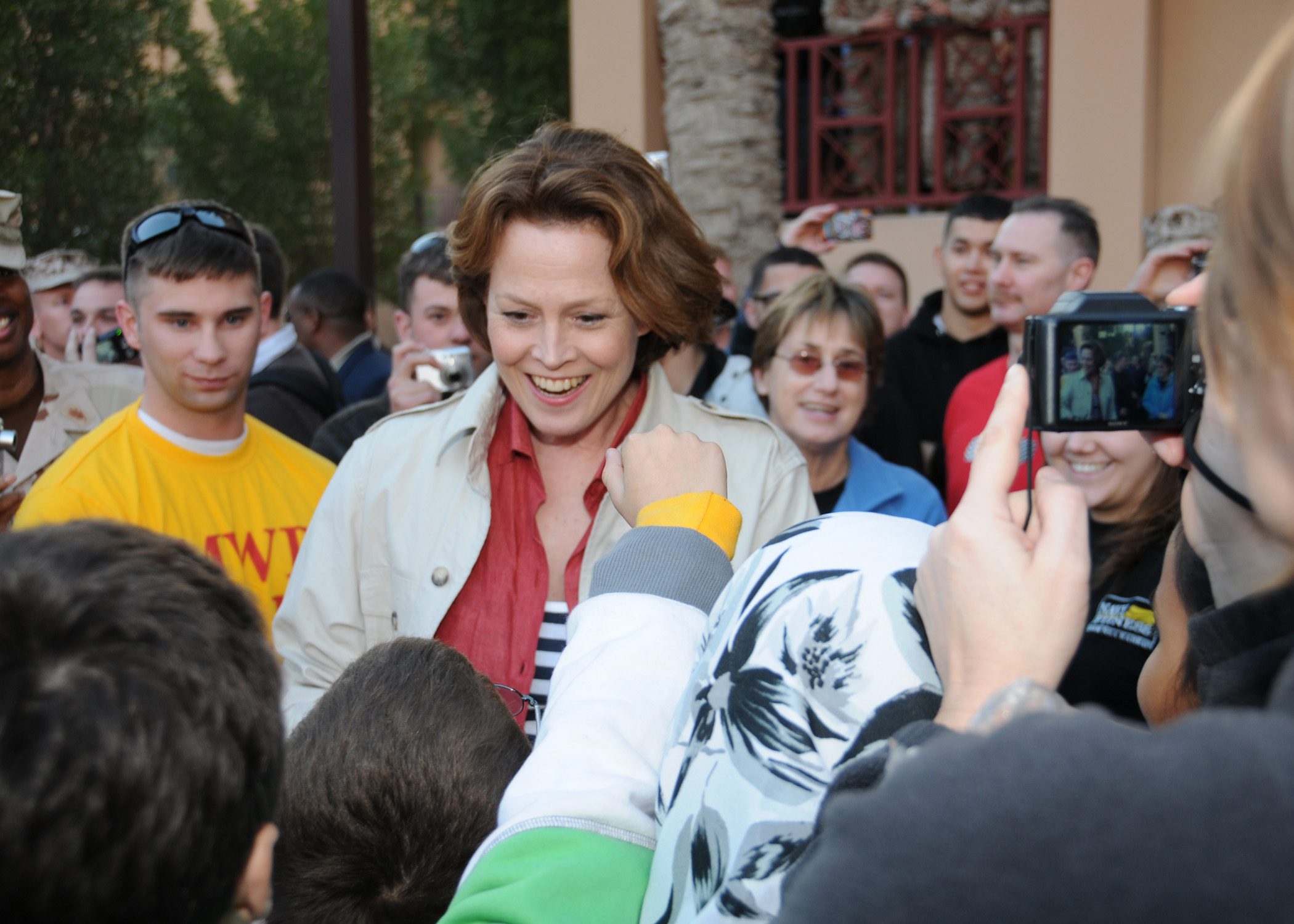 Sigourney Weaver, an actress from the science fiction film Avatar, meets with U.S. Sailors and their families during a meet and greet event at Naval Support Activity Bahrain in Manama, Bahrain, Jan. 28, 2010. The stop, was one of several planned in the U.S. 5th Fleet area of operations, which included Avatar actors Michelle Rodriguez, Stephen Lang and Oscar-winning director James Cameron.